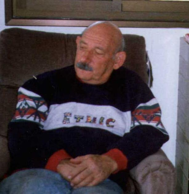 Shlomo Baum